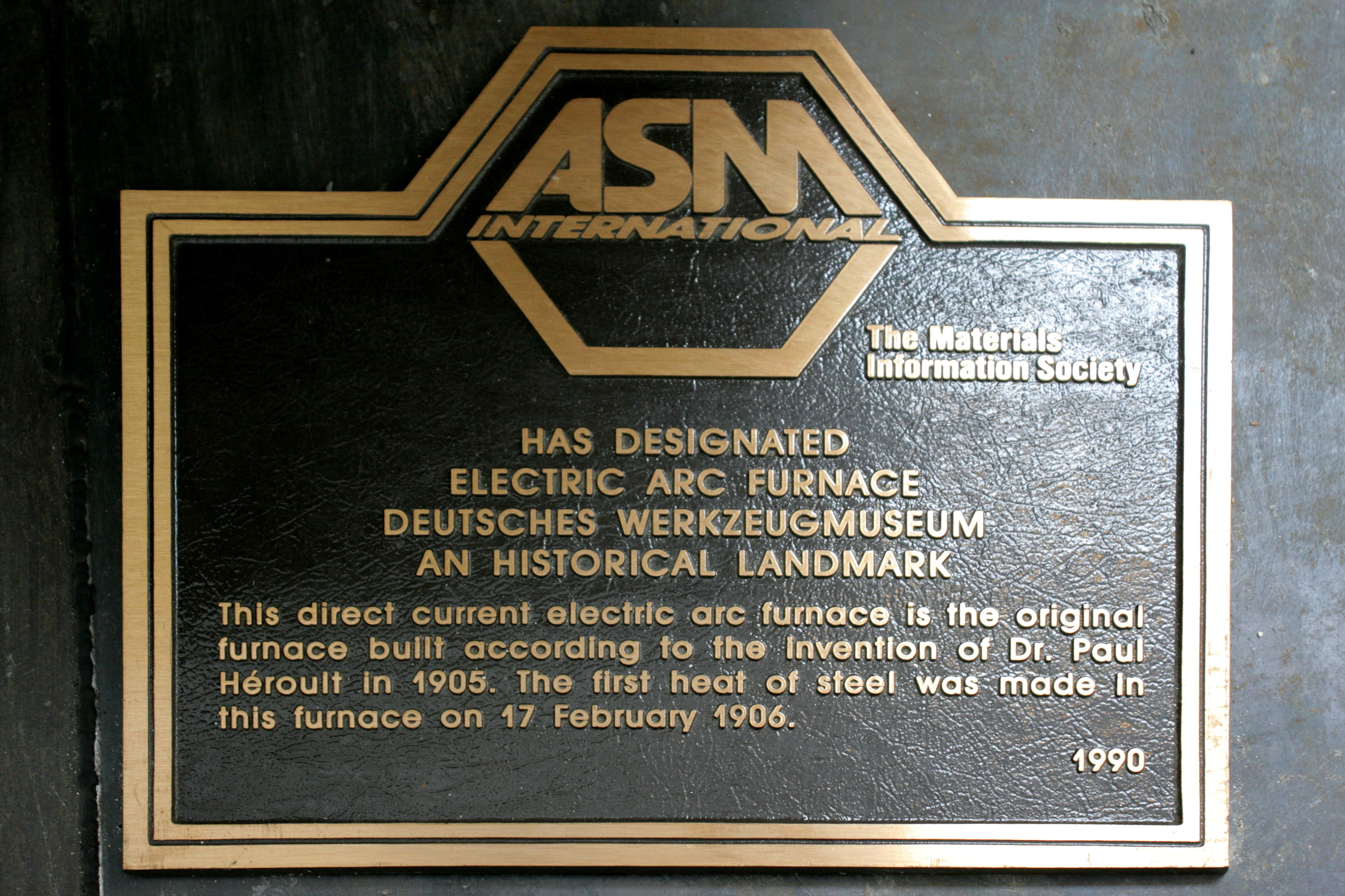 Deutsches Werkzeugmuseum, Cleffstraße 2-6 in Remscheid